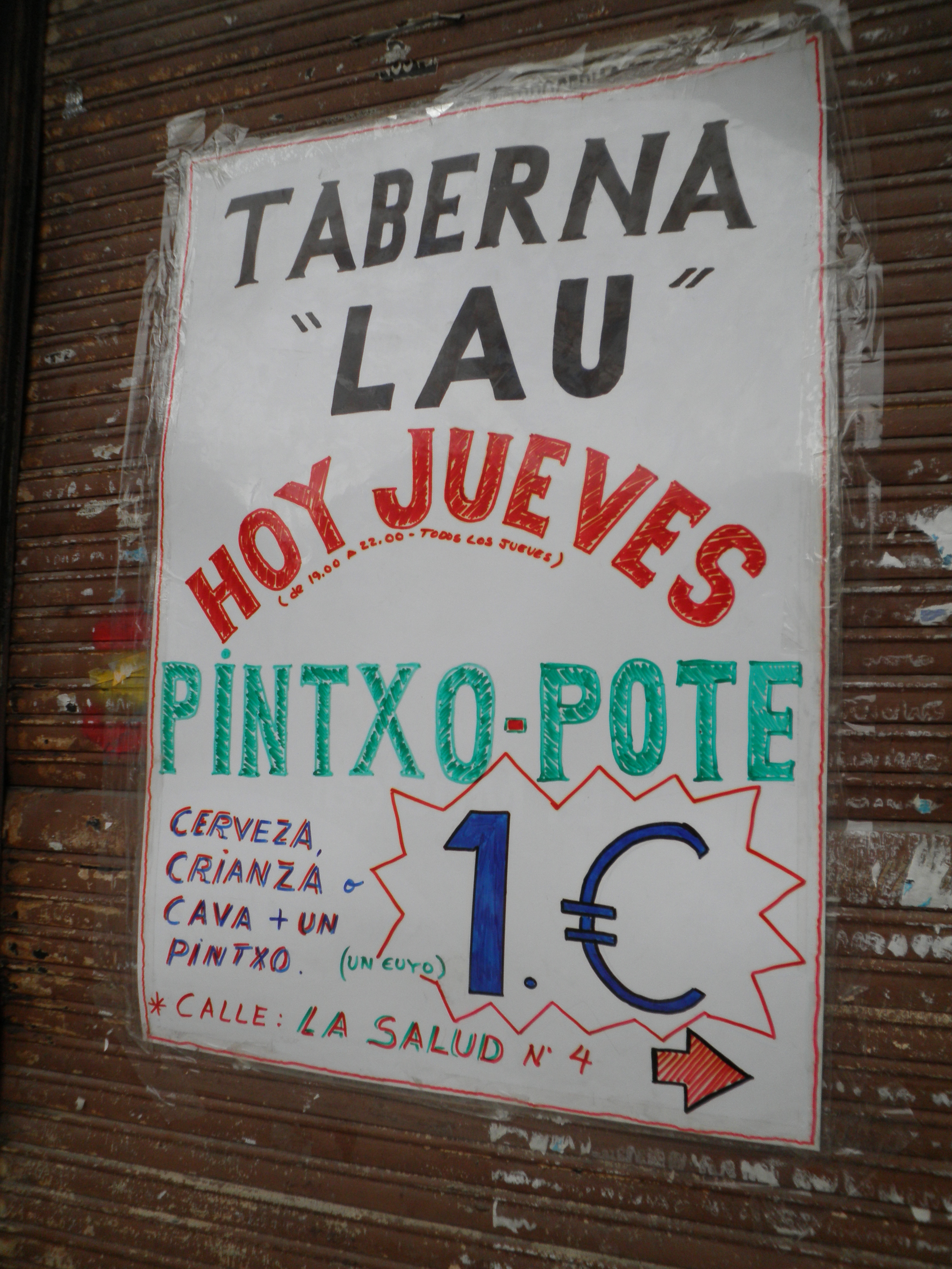 Pub advertisement in Donostia, Basque Country.